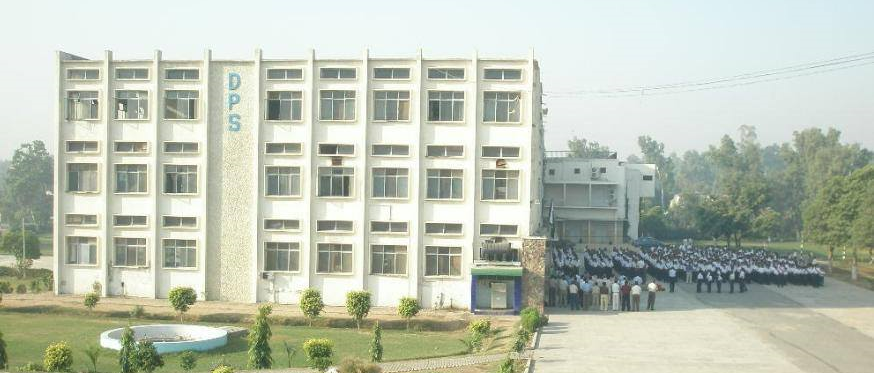 Students during assembly